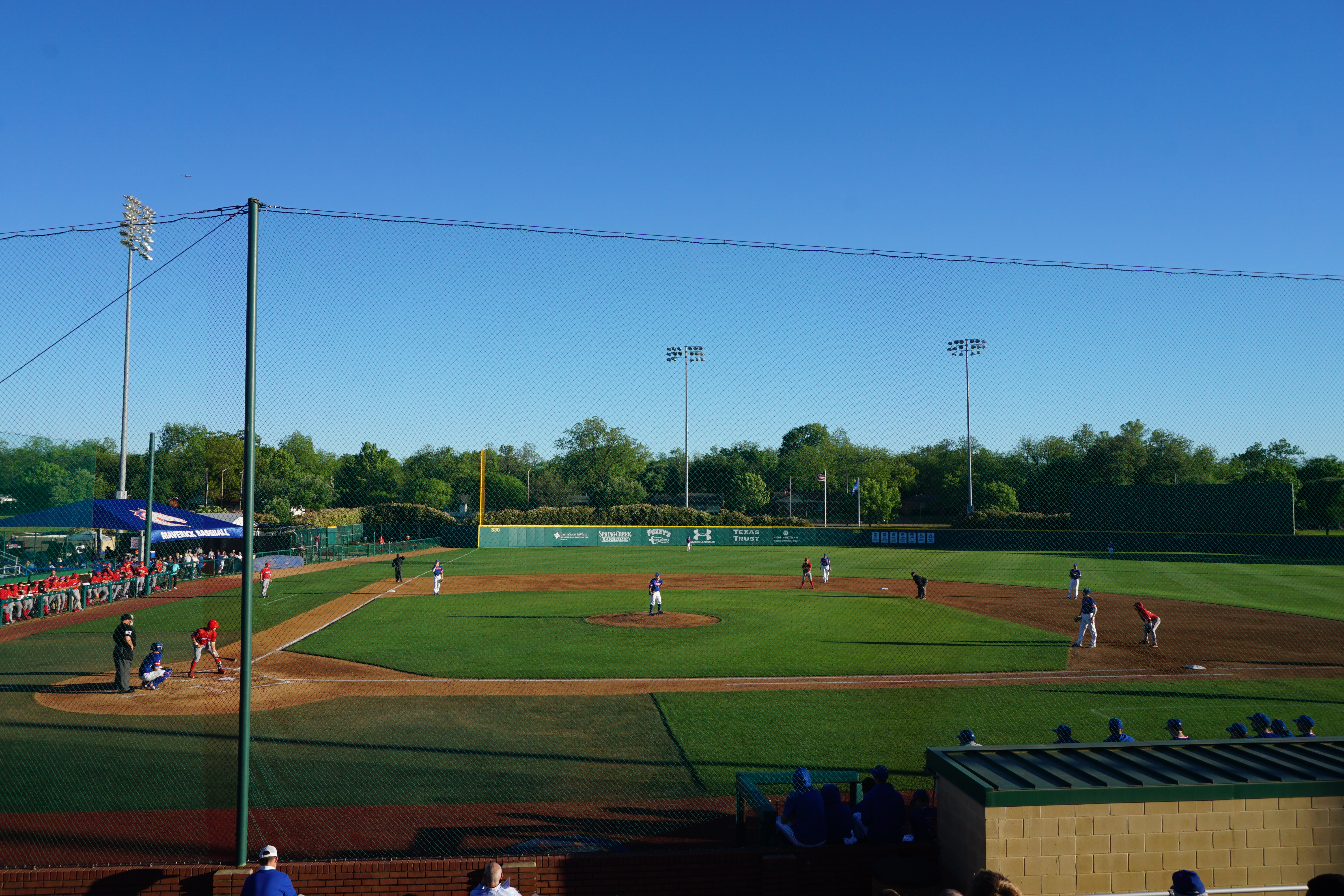 In-game action during the Louisiana Ragin' Cajuns vs. UT Arlington Mavericks baseball game at Clay Gould Ballpark in Arlington, Texas (United States). UT Arlington won 7–3.